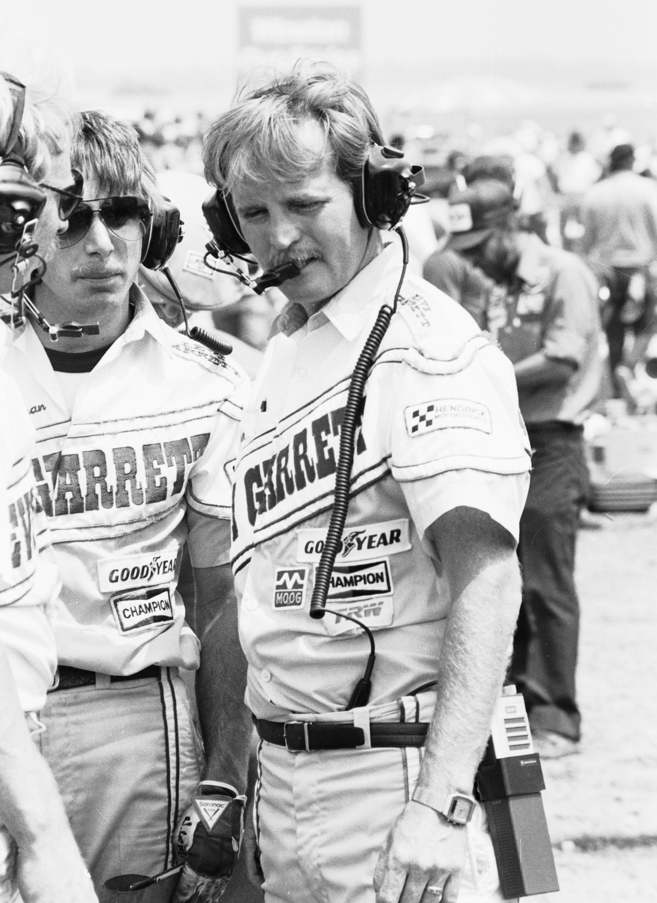 NASCAR crew chief Gary Nelson. 1985 Photo By Ted Van Pelt